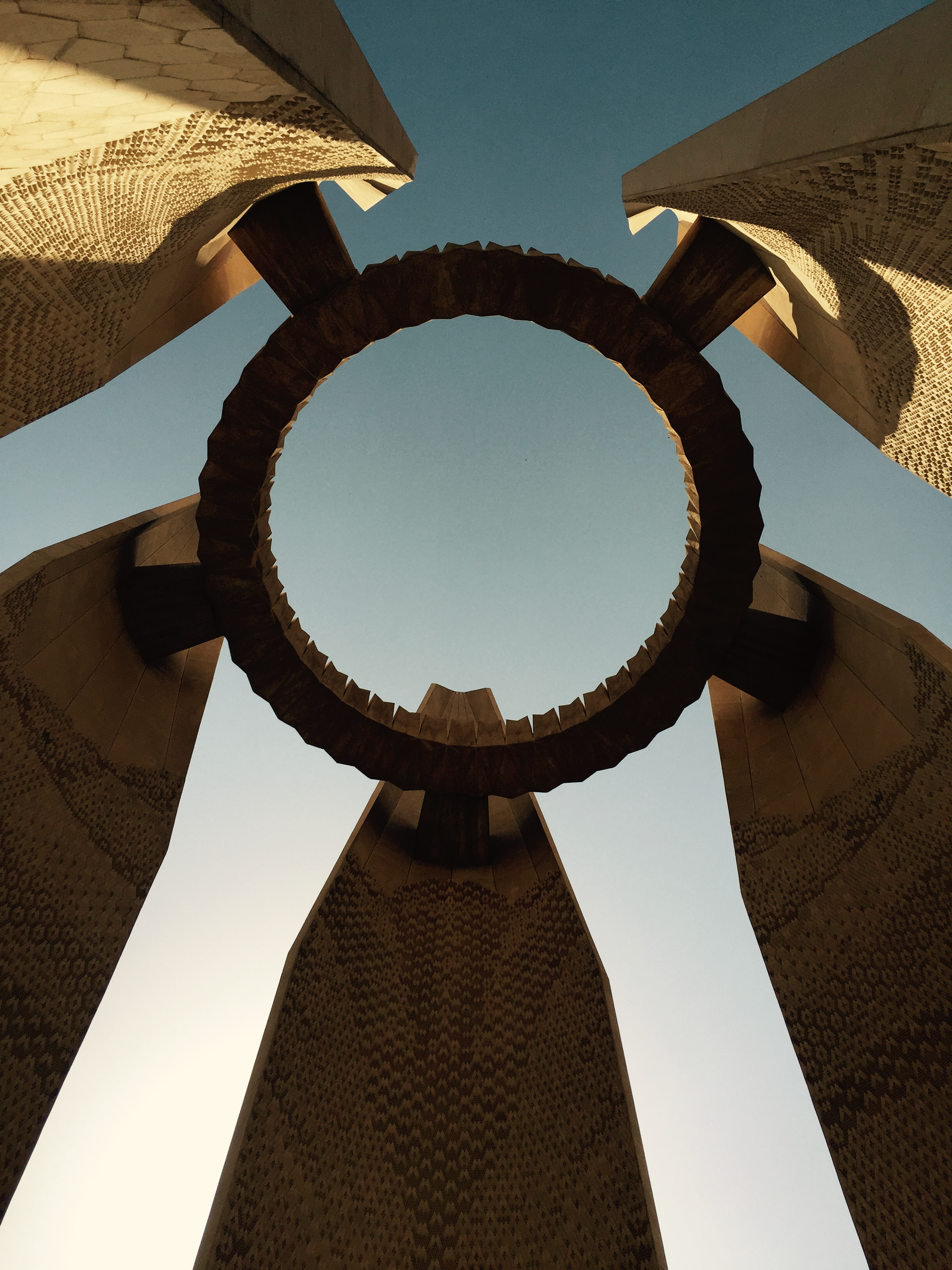 The Aswan Dam Monument